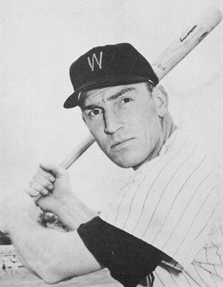 Professional baseball player Jim Lemon